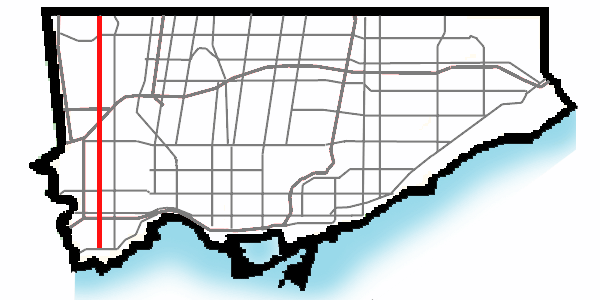 Map of Kipling Avenue in Toronto